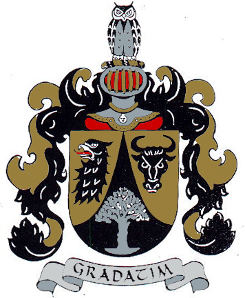 Coat of arms of Otjiwarongo, Namibia